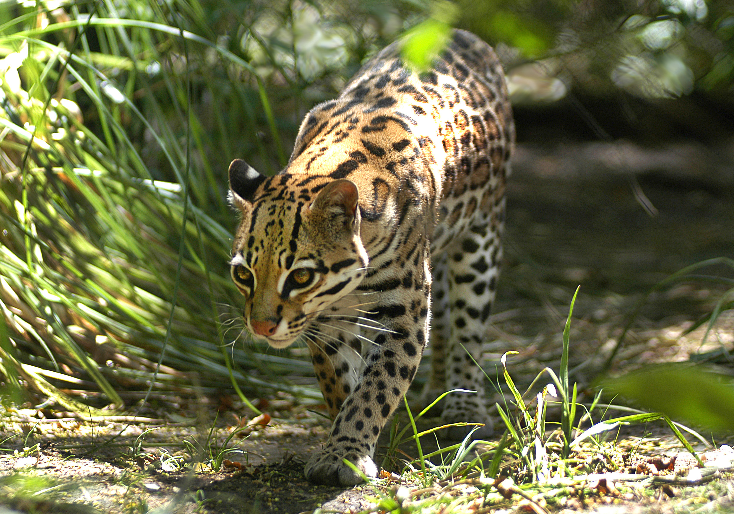 A Yaguatirica, Leopardus wiedii in Pan de Azucar National Park in Uruguay.